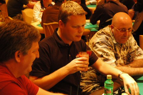 Juha Helppi (center) at World Poker Tour Five Star Poker Classic 2005